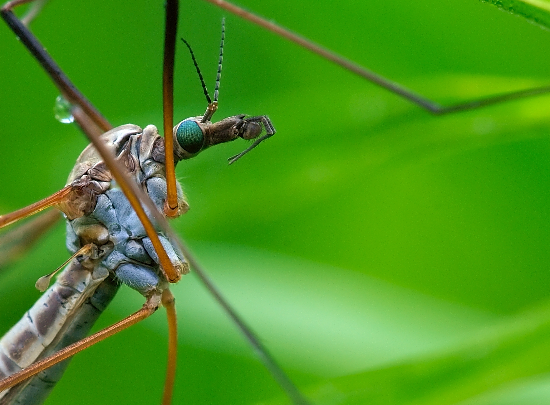 Tipulidae.